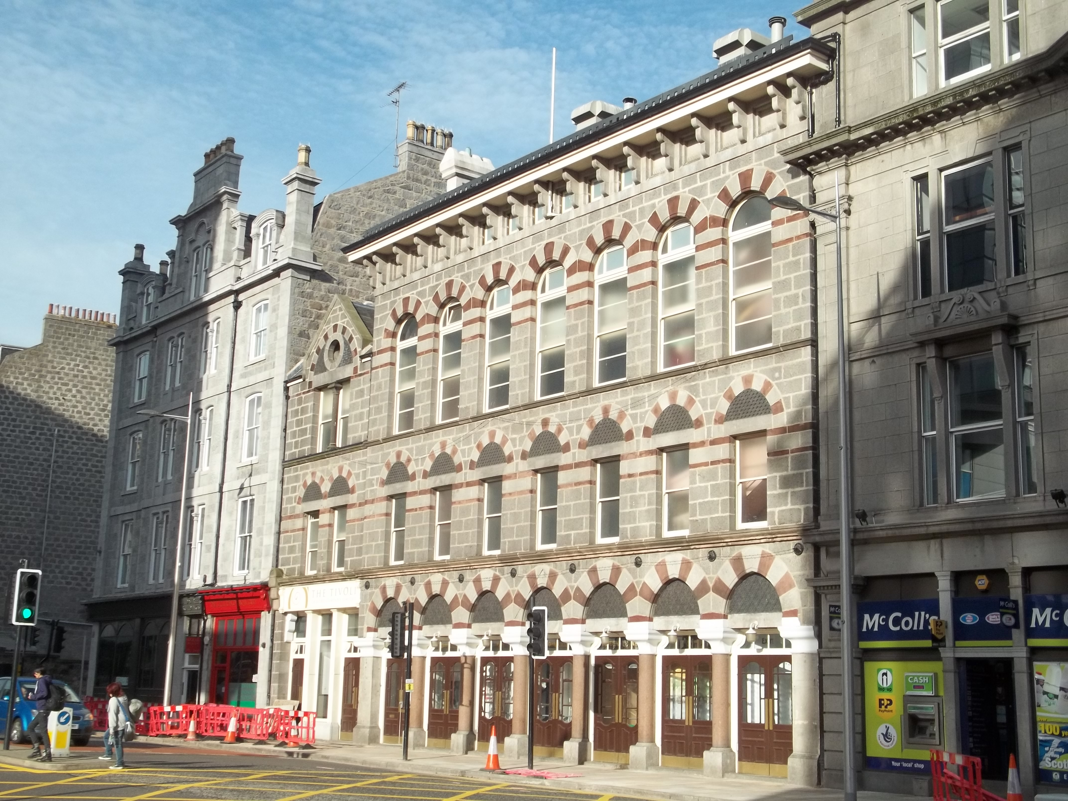 The Tivoli Theatre on Guild Street, Aberdeen